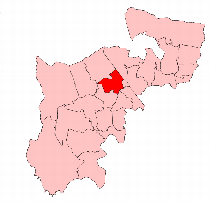 A map of Wembley North constituency within Middlesex, as it existed from 1945 to 1950.